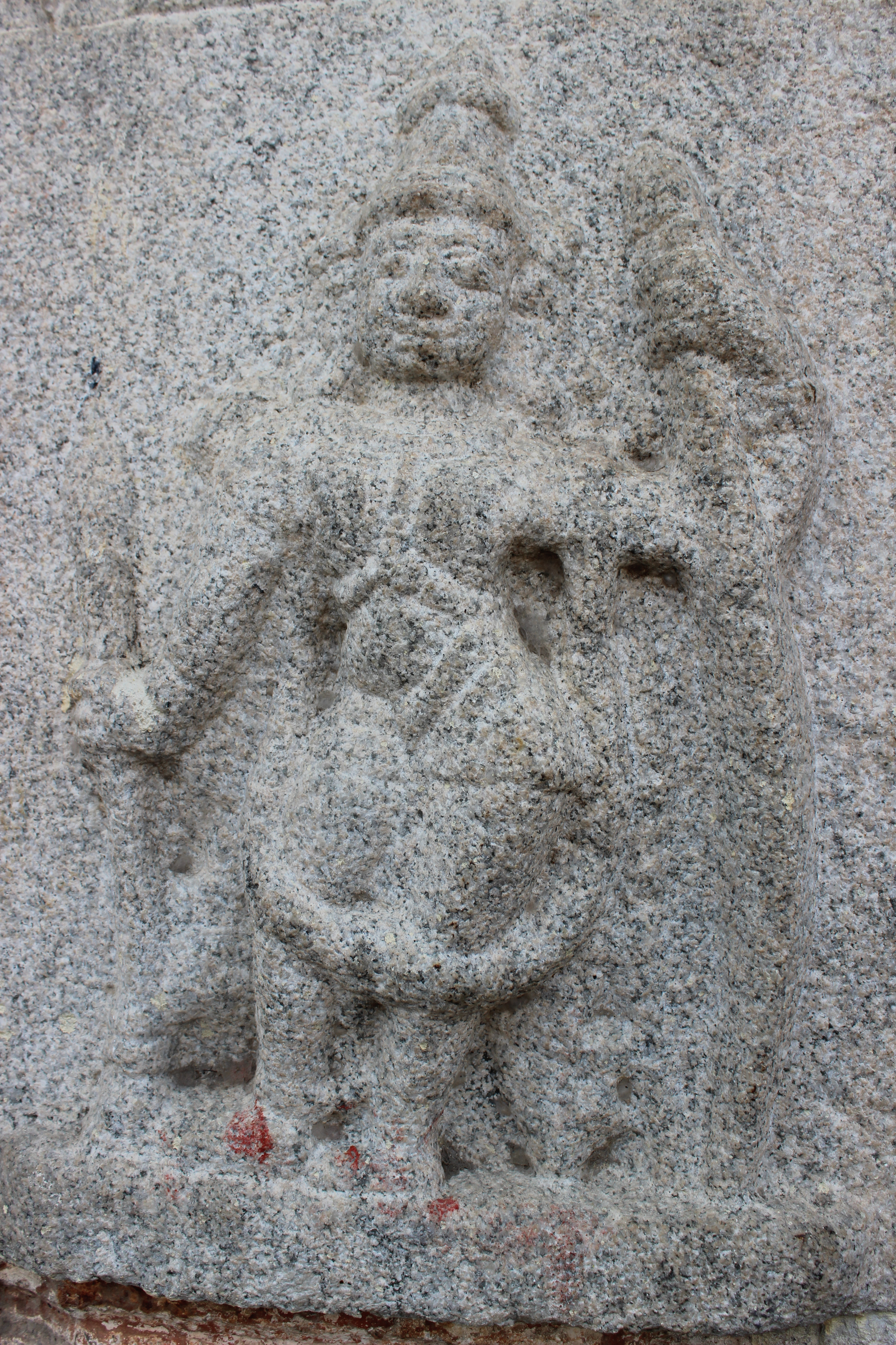 Thiruchanur